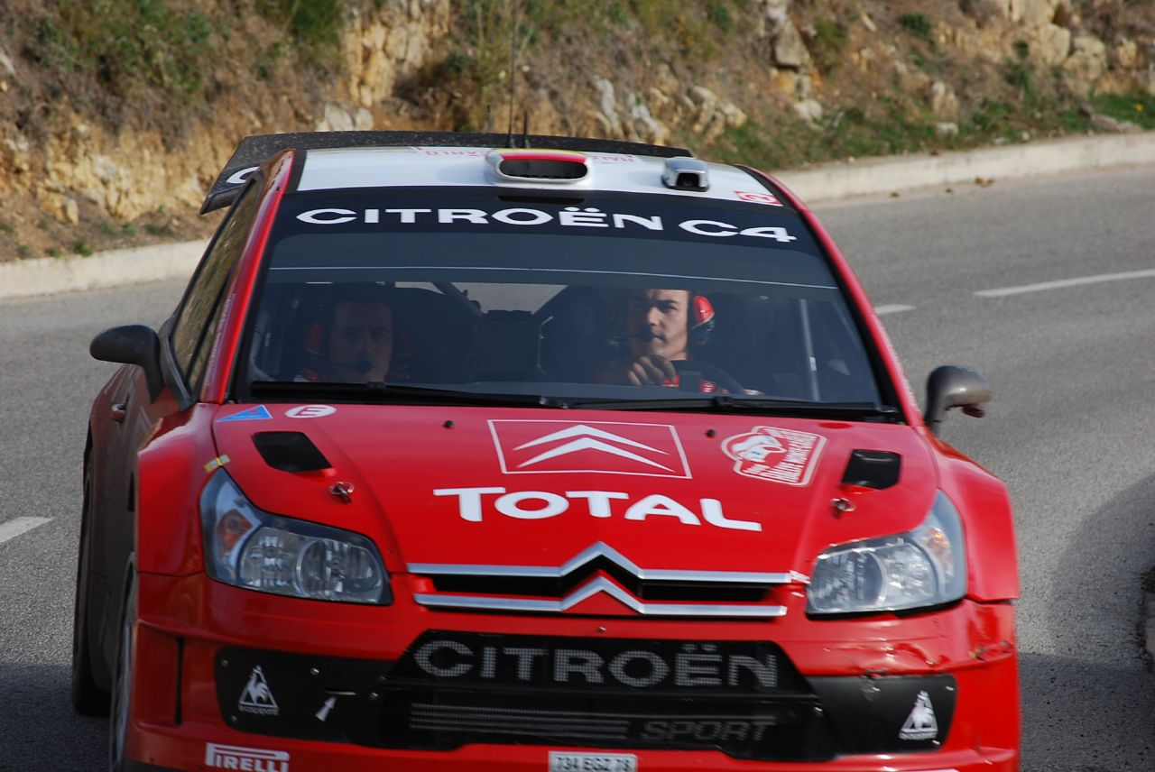 Dani Sordo driving his Citroën C4 WRC on a road section during the 2008 Monte Carlo Rally.